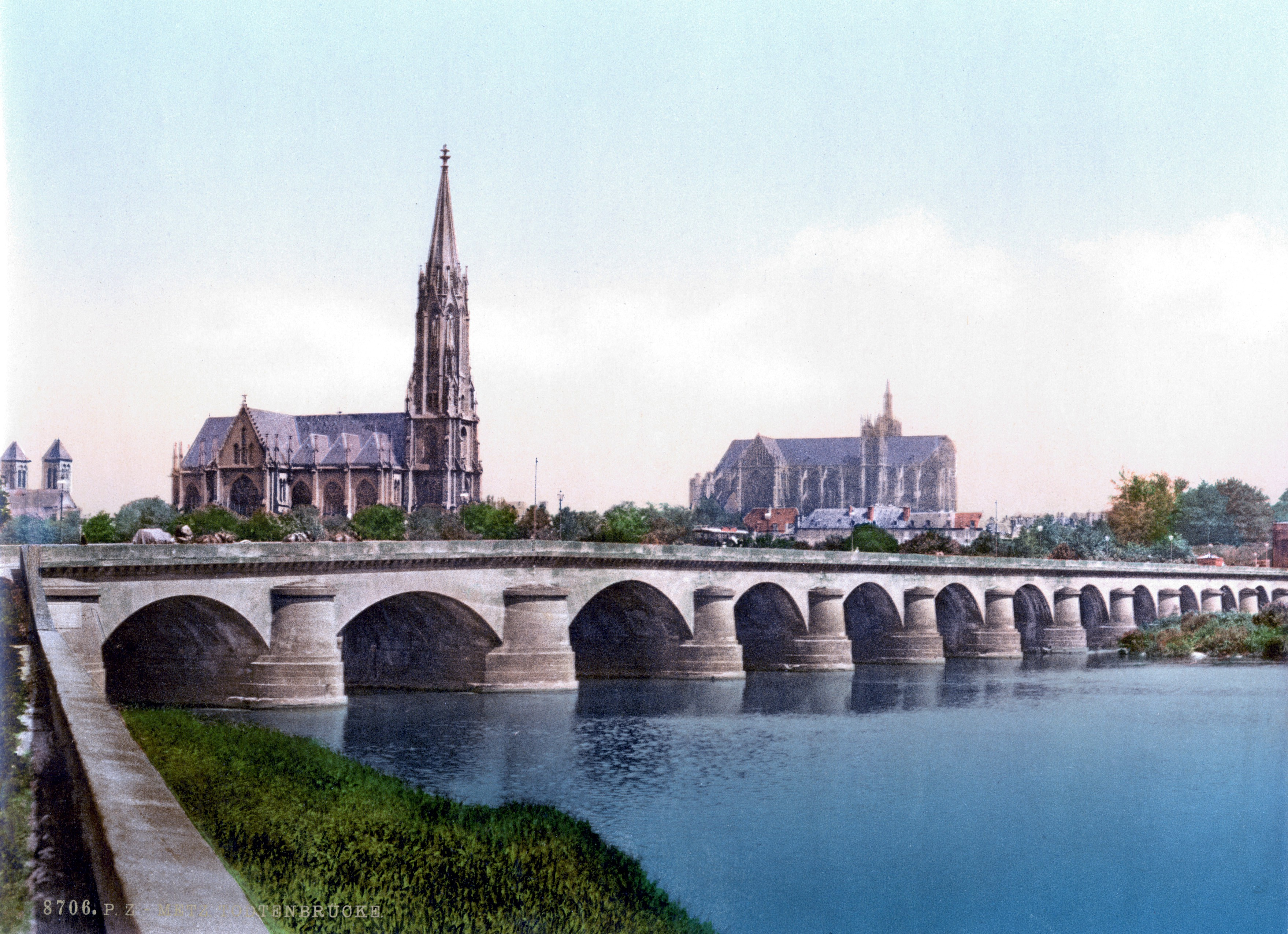 Photochrome print of the Pont des Morts (then "Todtenbrücke") in Metz, France, circa 1900.